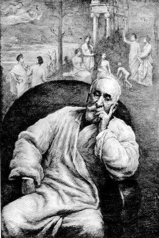 Portrait of French painter Pierre Puvis de Chavannes (1824-1898) against the background of one of his works. Drypoint by Marcellin Desboutin (1823-1902). Portrait de Pierre Puvis de Chavannes sur fond d'un de ses tableaux. Pointe-sèche par Marcellin Desboutin.